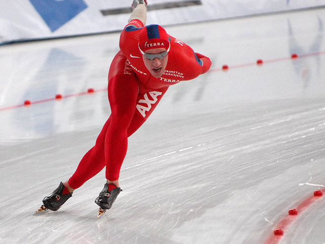 Henrik Christiansen at the 2008 World Cup in Hamar.